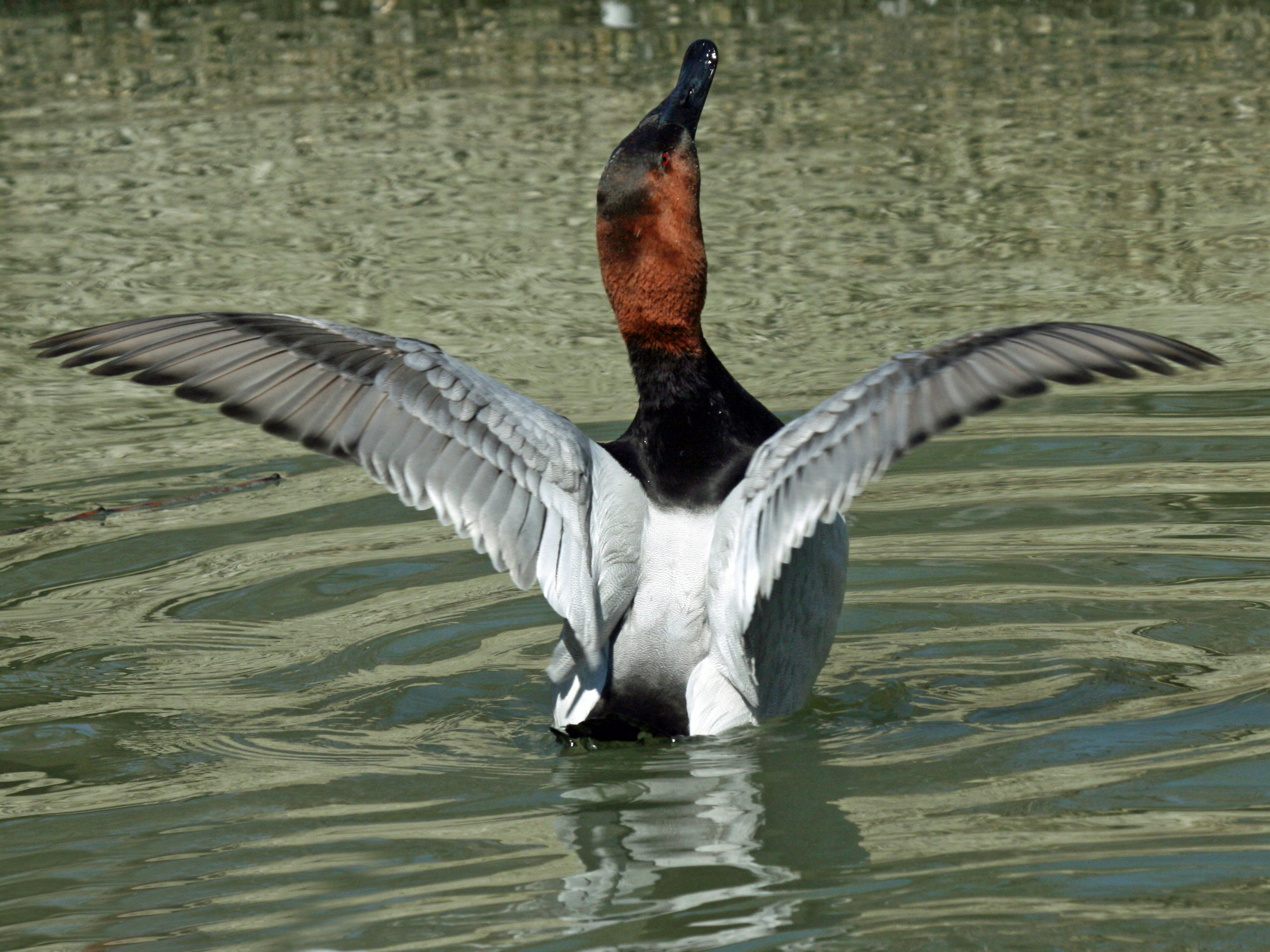 ♂ Canvasback (Aythya valisineria) at Sylvan Heights Waterfowl Park in Scotland Neck, North Carolina.